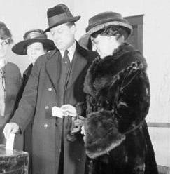 Mr. and Mrs. Arthur Lueder voting at the front of a line in a room